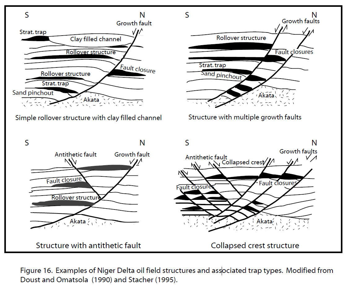 Oil Field Structures in the Niger Delta